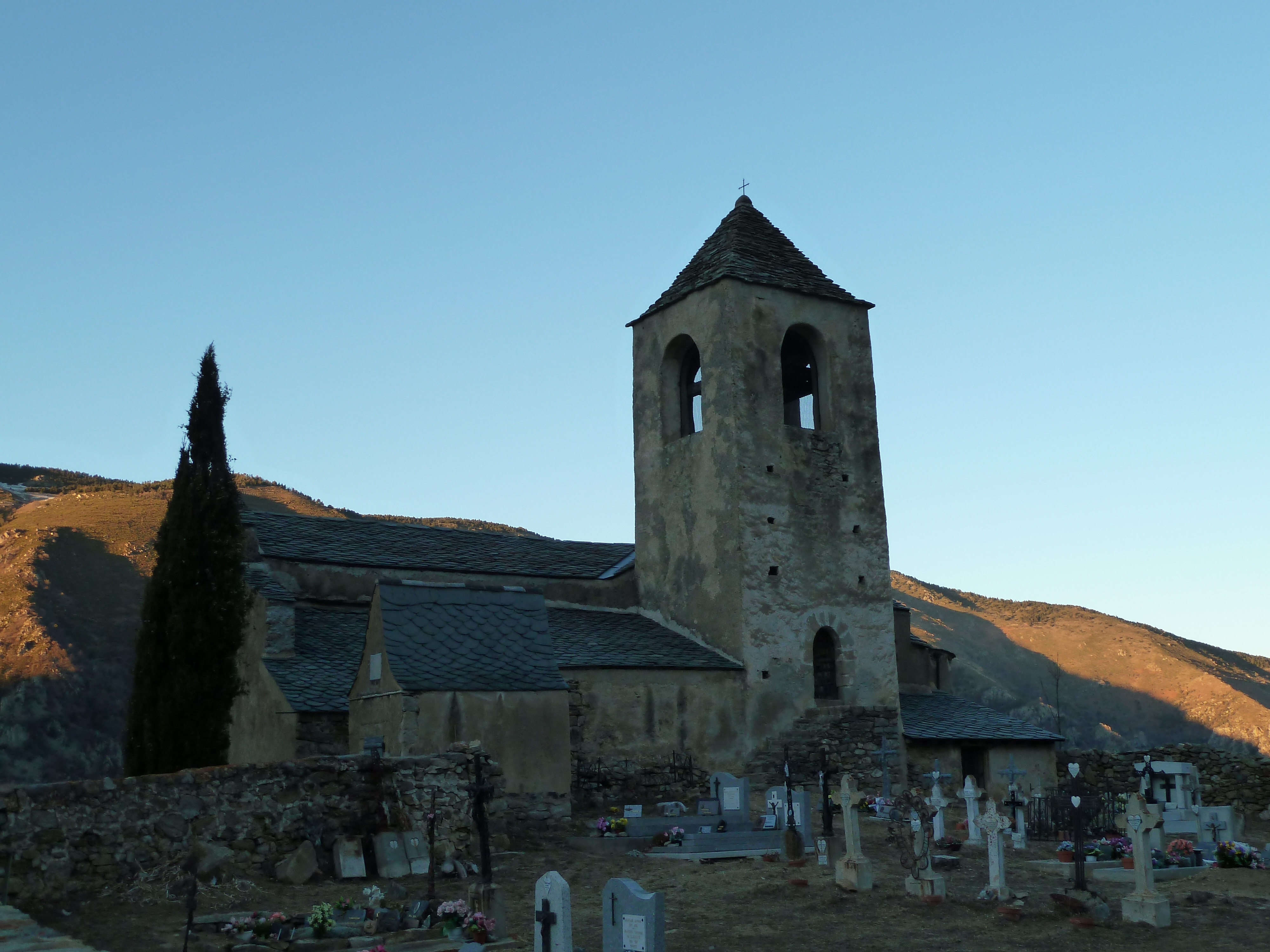 Fontpédrouse - Prats-Balaguer (Pyrénées-Orientales département, Languedoc-Roussillon région, France) : Trinity Church (XIth century). Southern side and belfry.